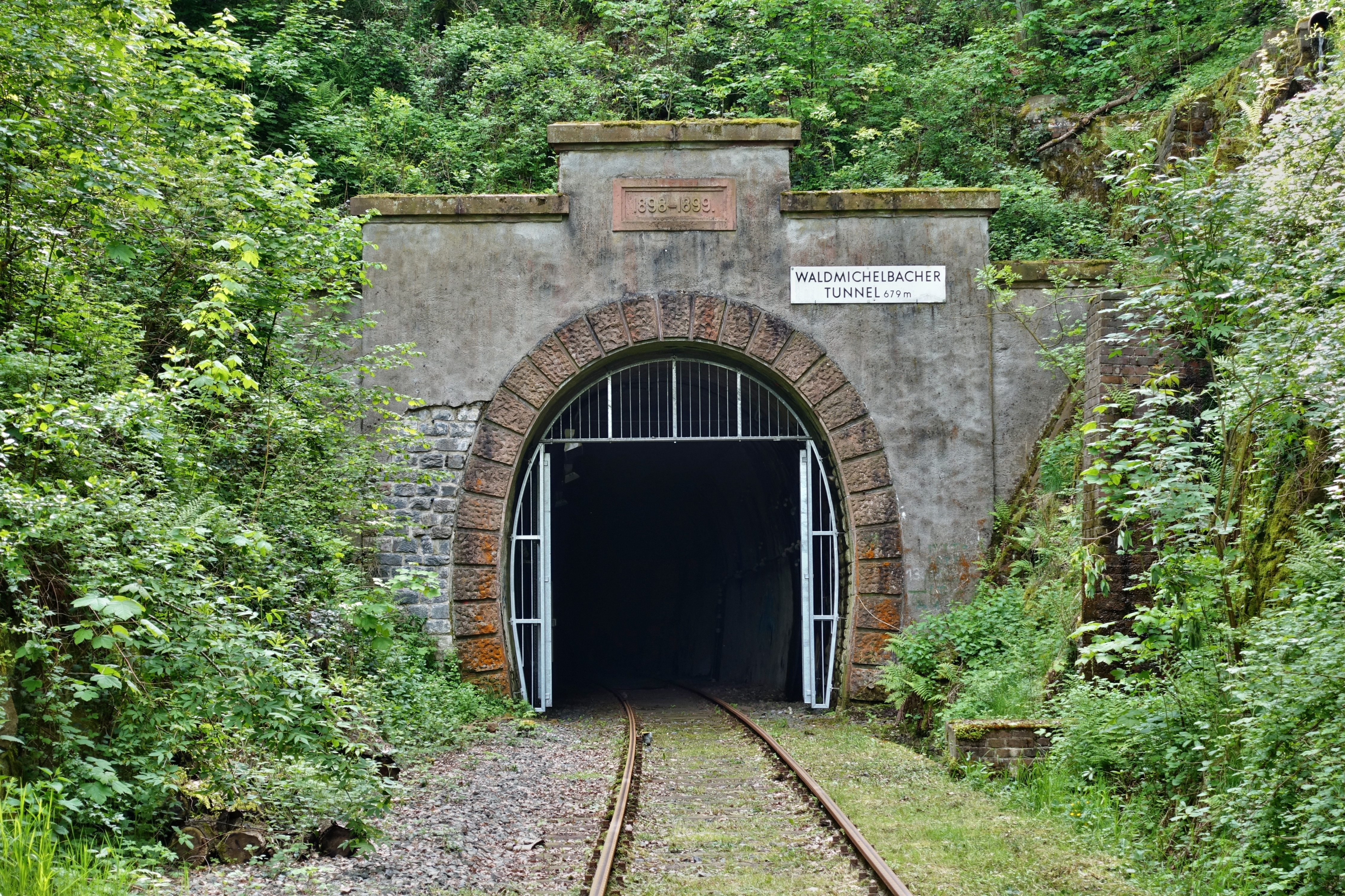 Waldmichelbacher Tunnel of the former railway "Überwaldbahn", now part of a solar draisine track.